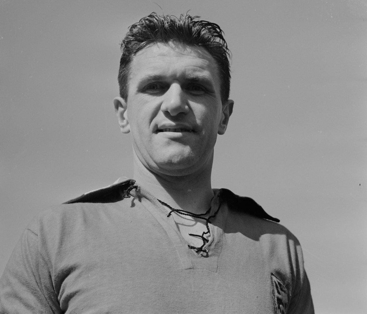 Belgian striker Joseph (Jef) Mermans